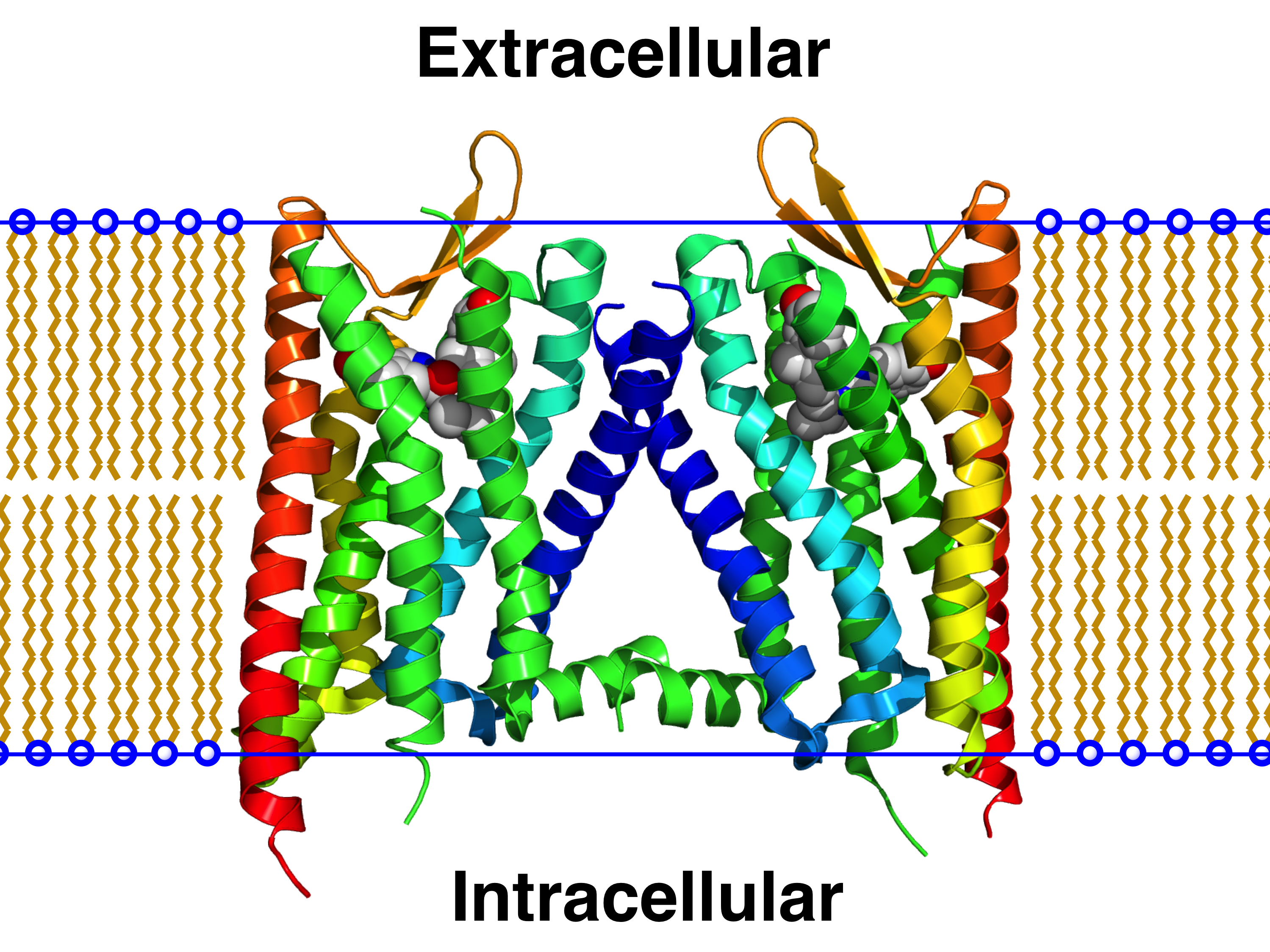 Created using PyMOL and the crystallographic structure of human κ-opioid receptor PDB: 4DJH​ Wu H, Wacker D, Mileni M, Katritch V, Han GW, Vardy E, Liu W, Thompson AA, Huang XP, Carroll FI, Mascarella SW, Westkaemper RB, Mosier PD, Roth BL, Cherezov V, Stevens RC (March 2012). "Structure of the human κ-opioid receptor in complex with JDTic". Nature. PMID 22437504.